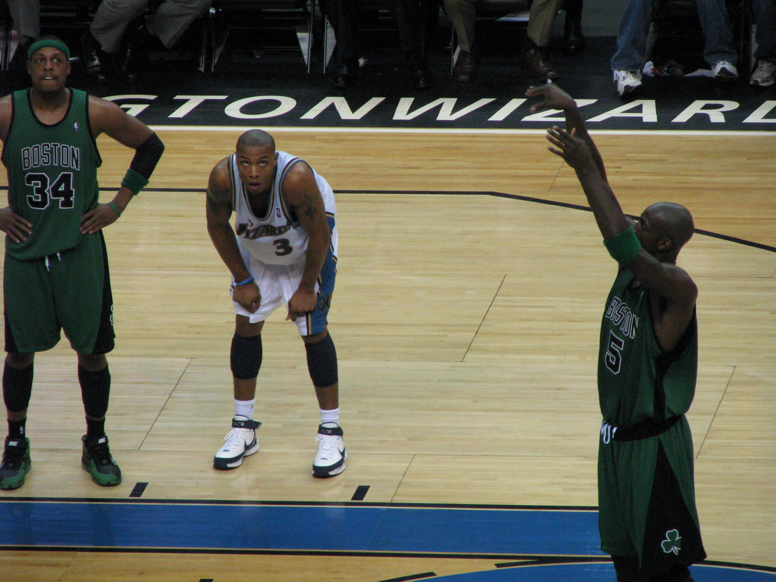 KG is a career 78% free throw shooter from the line. Is there anything this guy can't do?